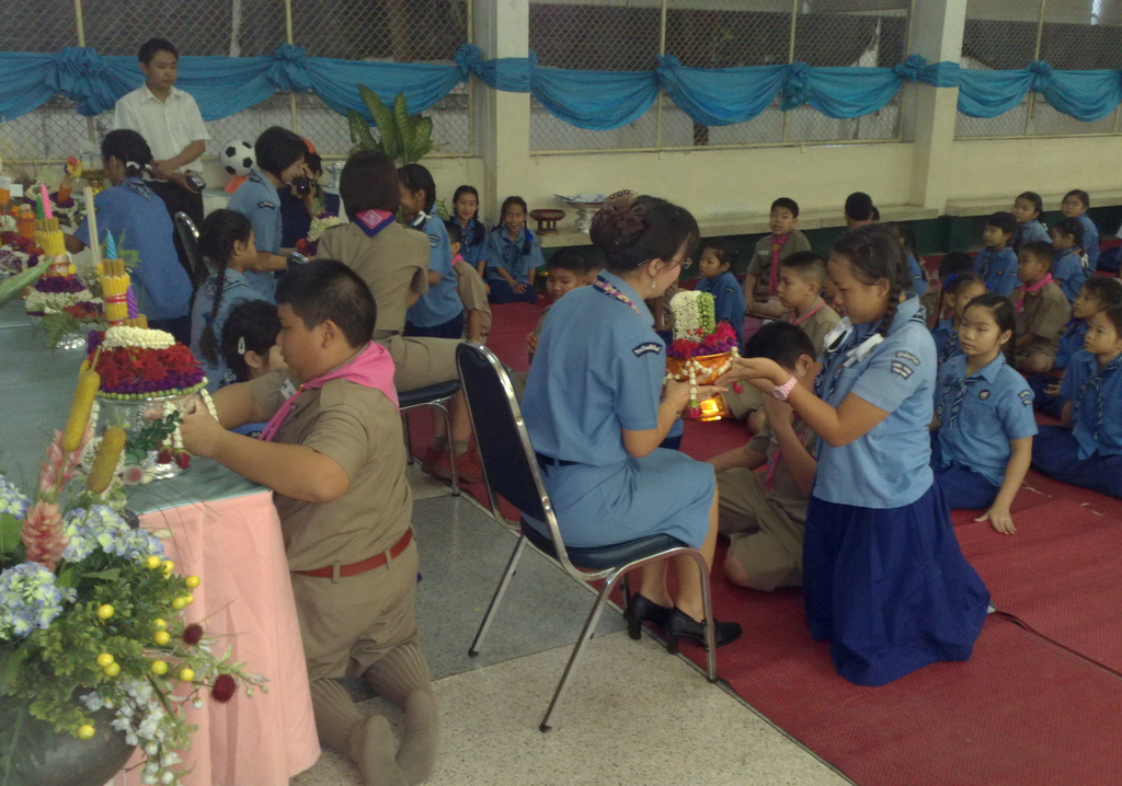 Student representatives present their teachers with offerings of flowers, candles and joss sticks arranged on phan during the wai khru ceremony at Wachirawit School, Chiang Mai, Thailand.